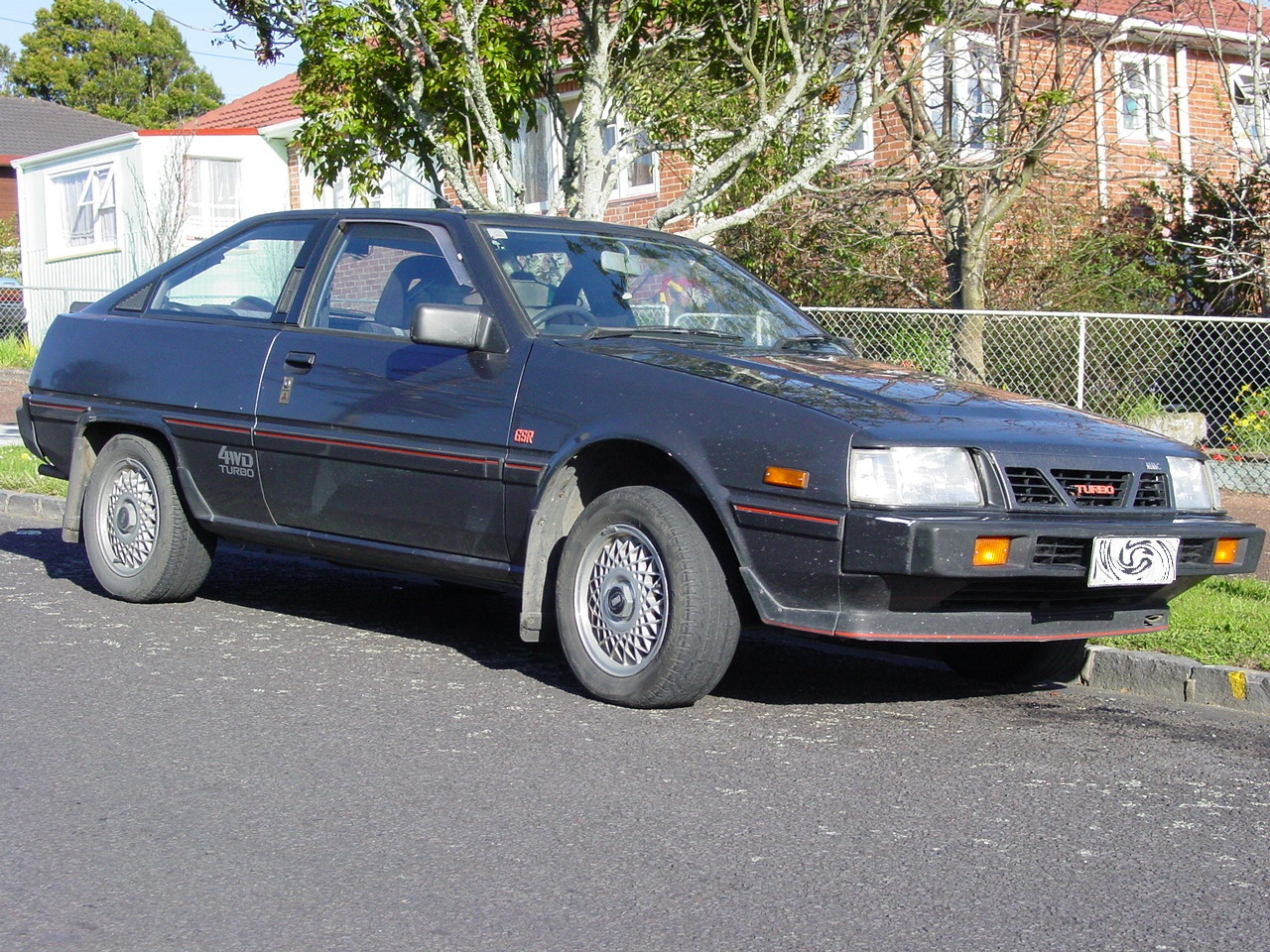 1986 Mitsubishi Cordia GSR 4WD - Japanese Domestic Market model imported to New Zealand